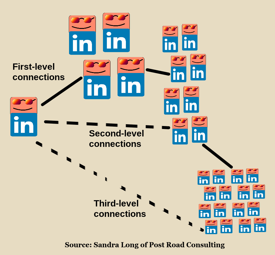 If a LinkedIn user accepts an invitation from another LinkedIn user, the two users are presumed to be connected by a first-level connection. The user is connected indirectly to that user's connections -- friends of friends -- which LinkedIn considers as a second-level connection, and so on. Source: Sandra Long of Post Road Consulting.